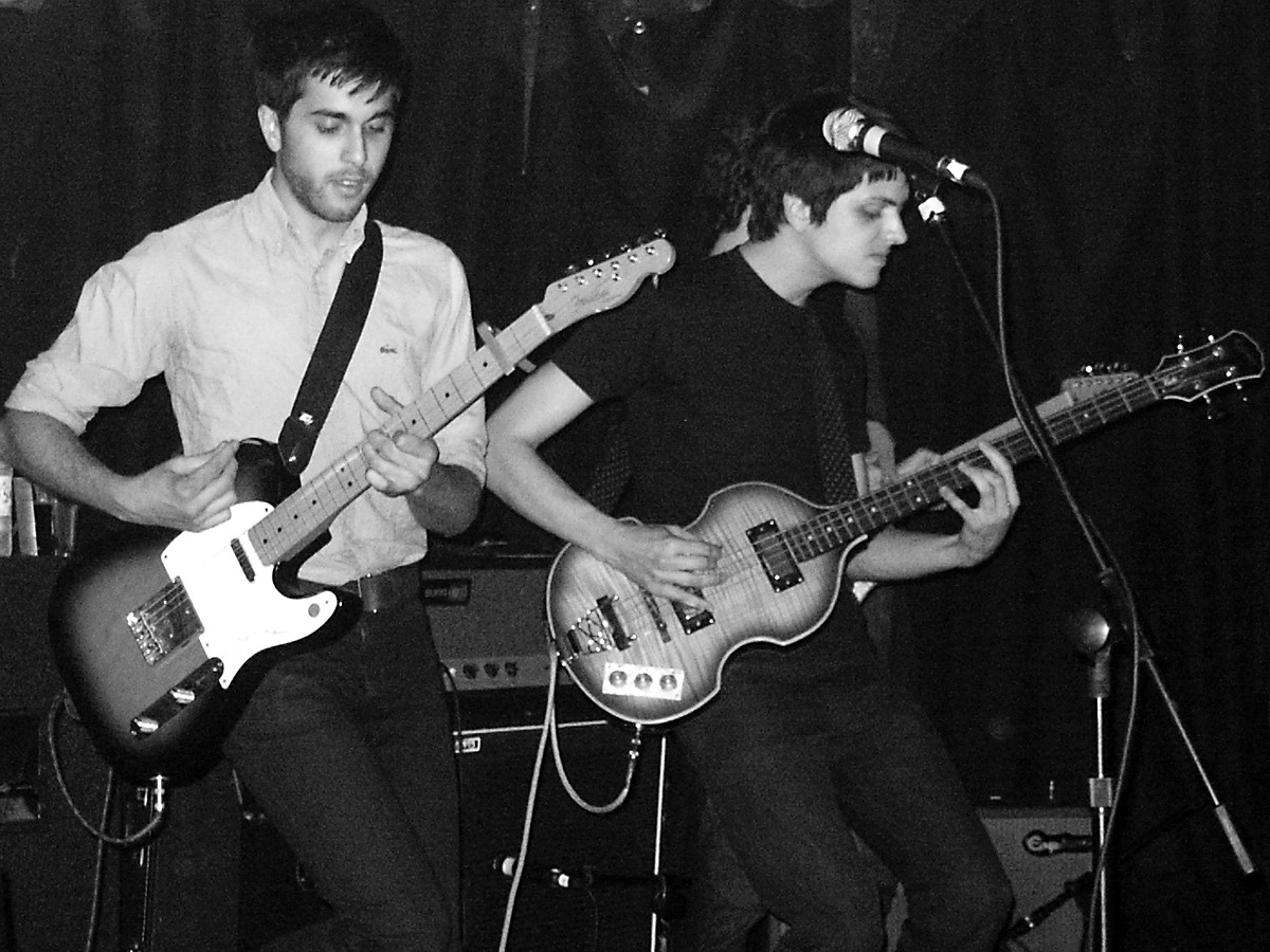 Voxtrot performing in Chicago at Empty Bottle in May 2006.